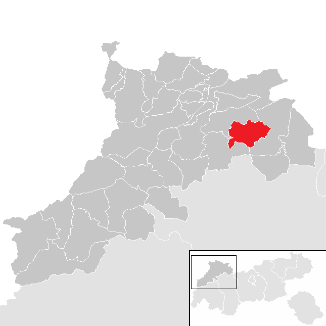 District Reutte